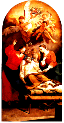 Death of St. Josephus oil on canvas, 198 x111 cm